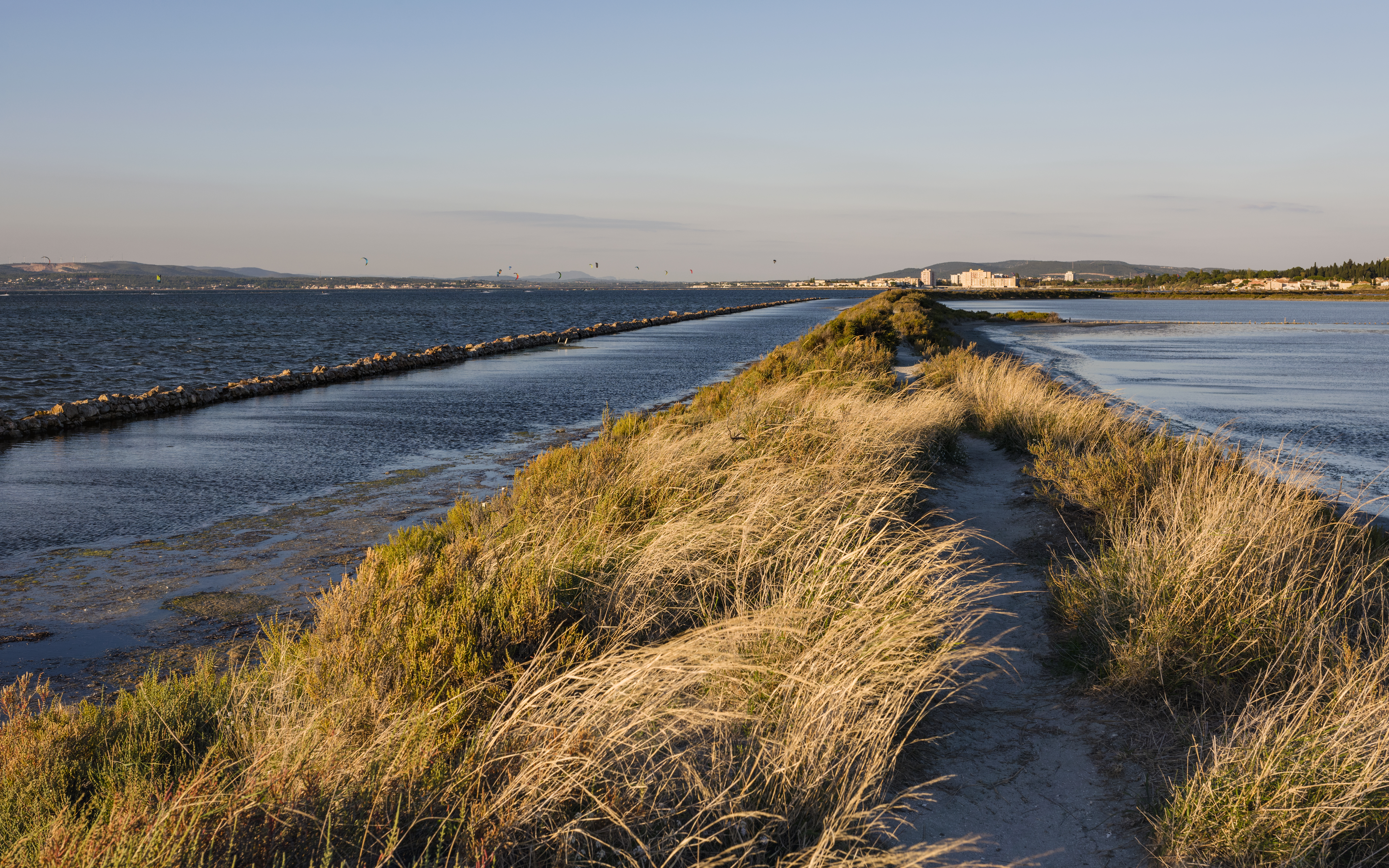 The Étang de Thau on the left and former salt evaporation ponds on the right, in the "Lido de Thau", an area protected by the Conservatoire du littoral. Sète, Hérault, France.